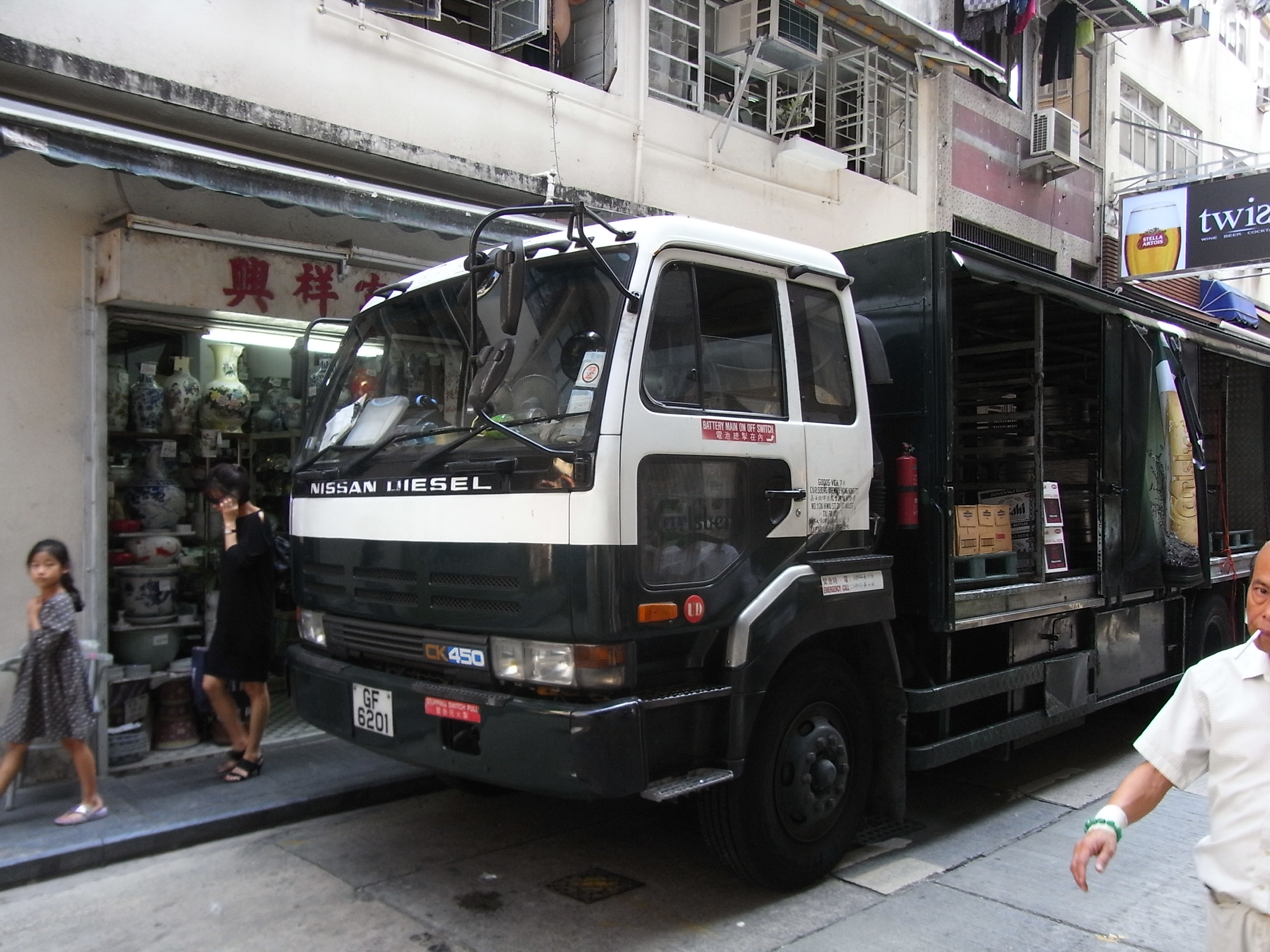 Staunton Street, Central Soho, Hong Kong